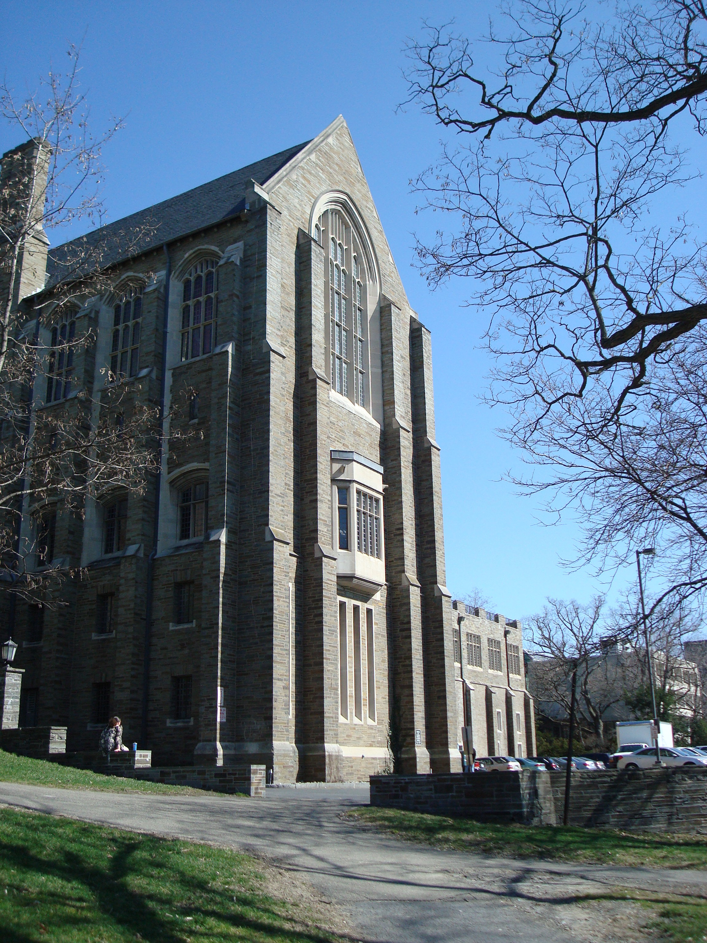 The west face of Willard Straight Hall at Cornell University.